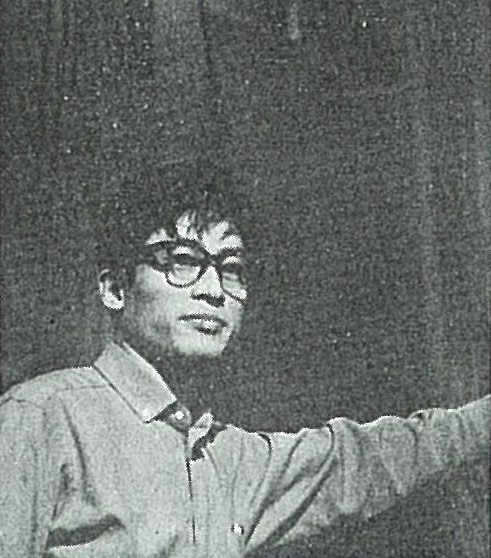 Bukichi INOUE (1930-1997), Japanese sculptor